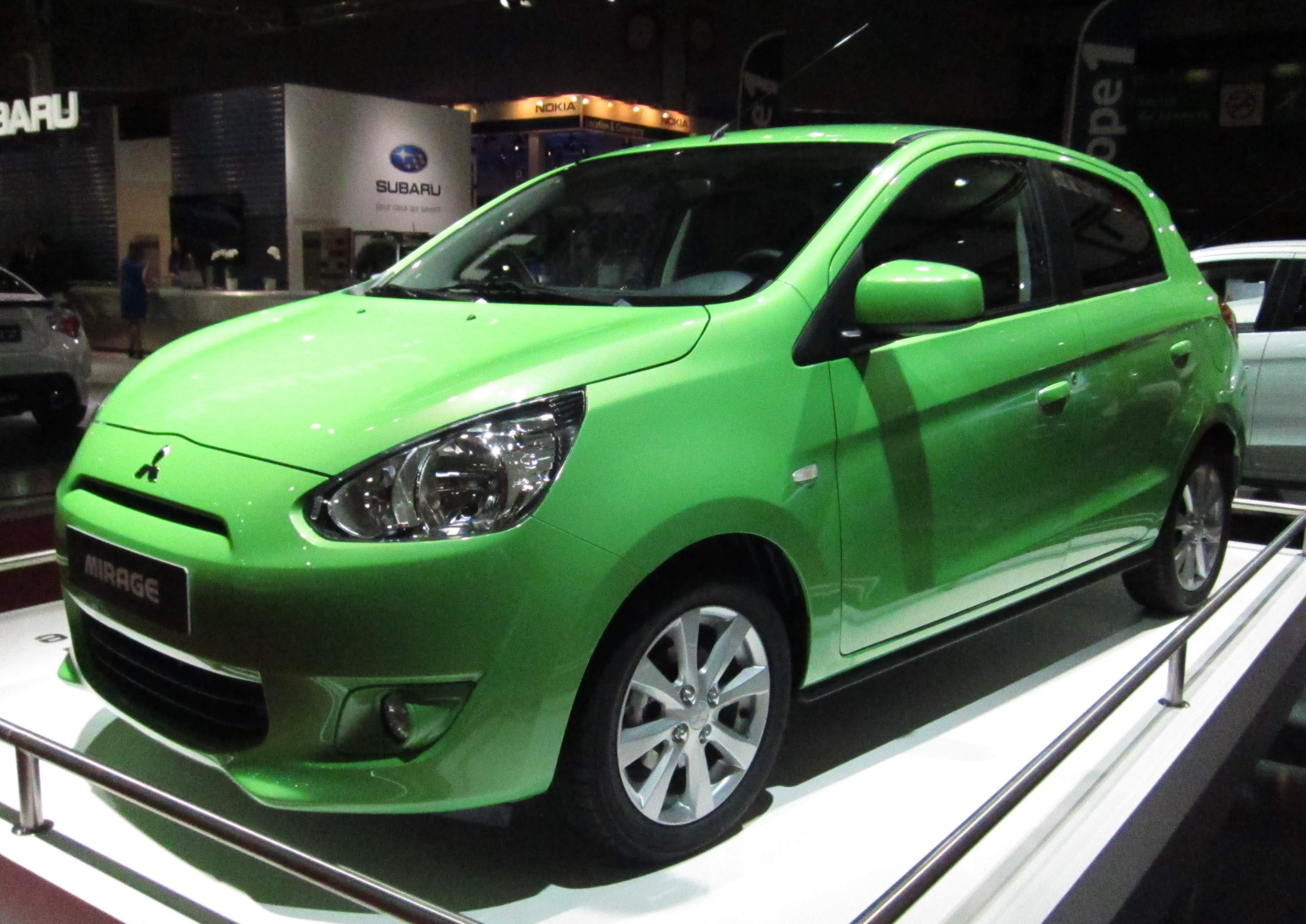 Mitsubishi Mirage at Mondial de l'Automobile Paris 2012